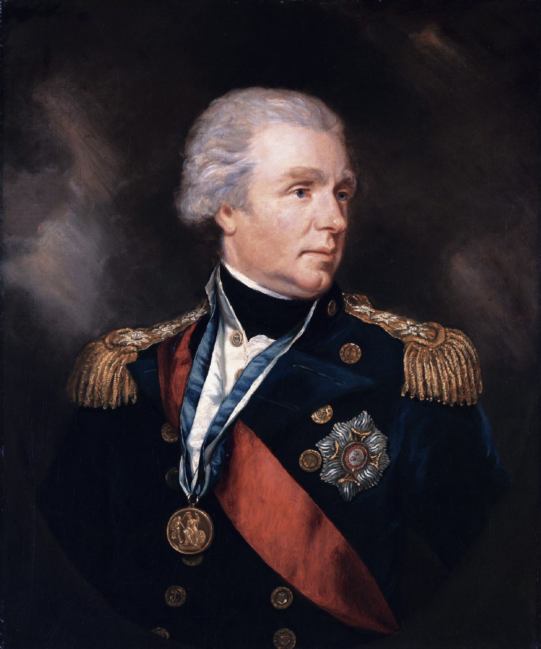 Admiral William Waldegrave, 1st Baron Radstock (1753-1825) oil on canvas 73.5 x 60.5 cm